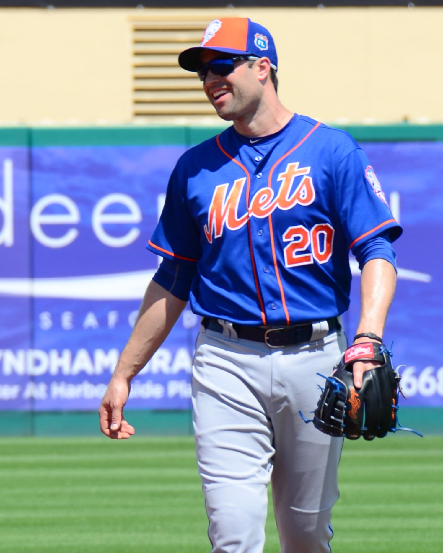 Neil Walker as a member of the New York Mets in 2016.